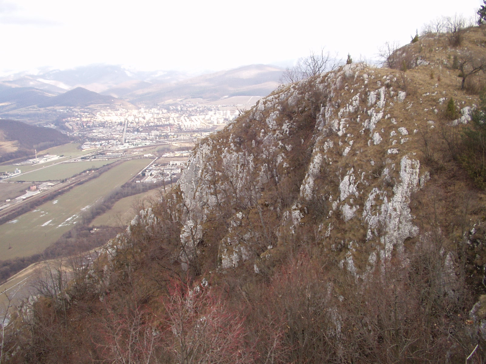 view from Brzotinske rocks (Slovak Karst)